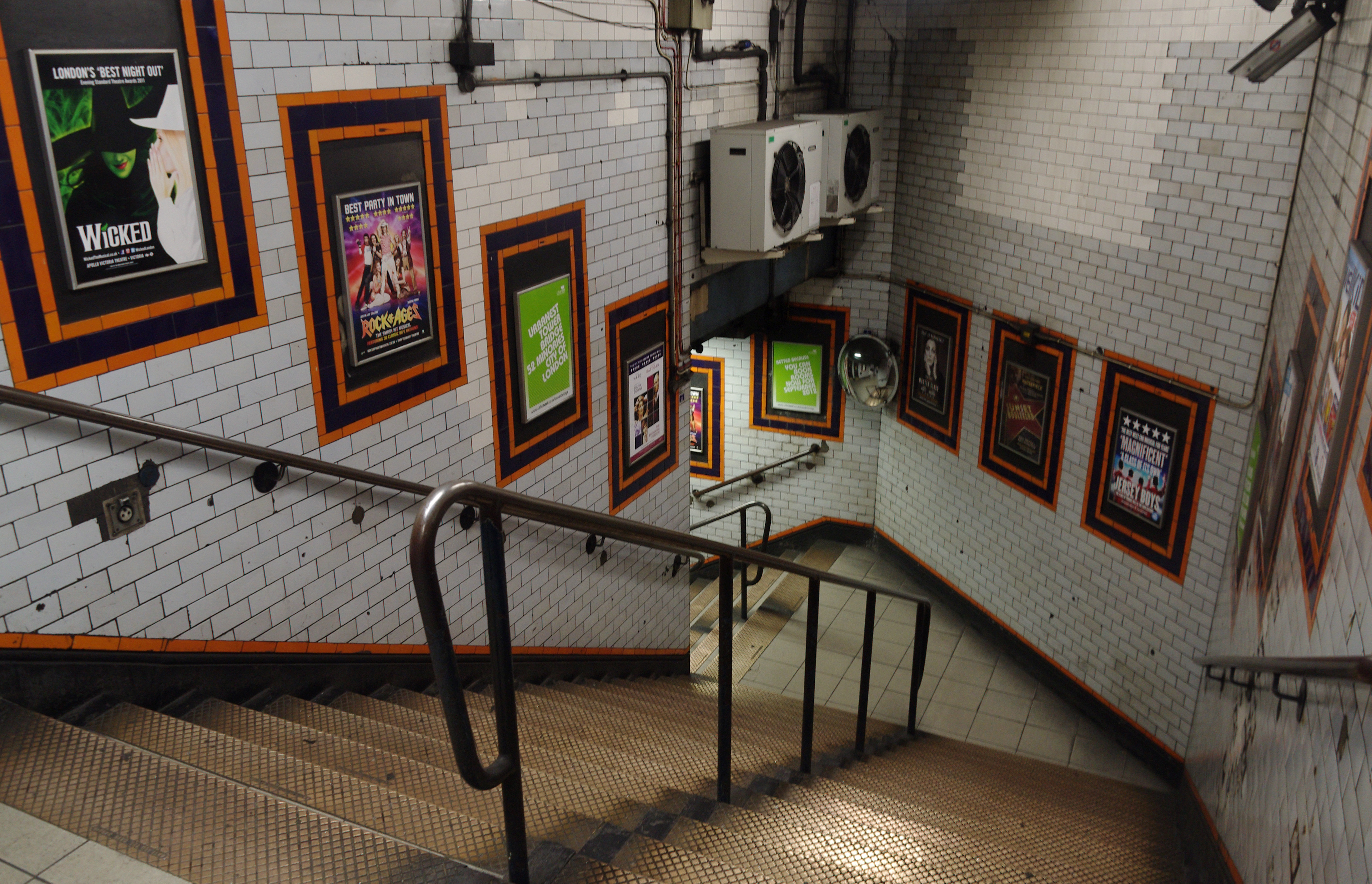 Looking down the stairs towards the eastbound platform at Euston Square tube station.